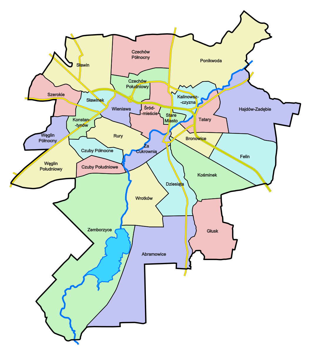 Lublin districts map